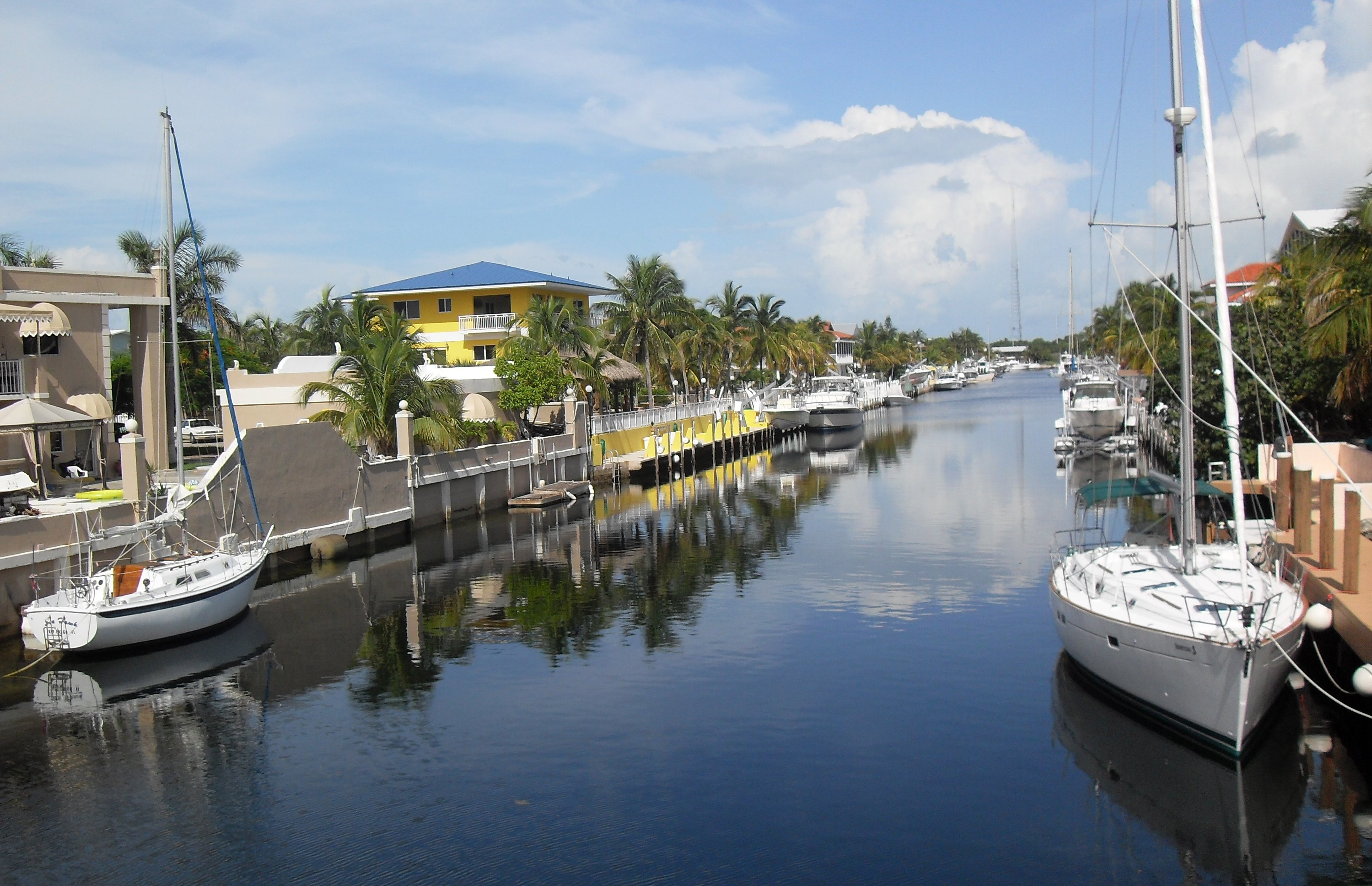 canal to the pier of Key largo harbor in Florida